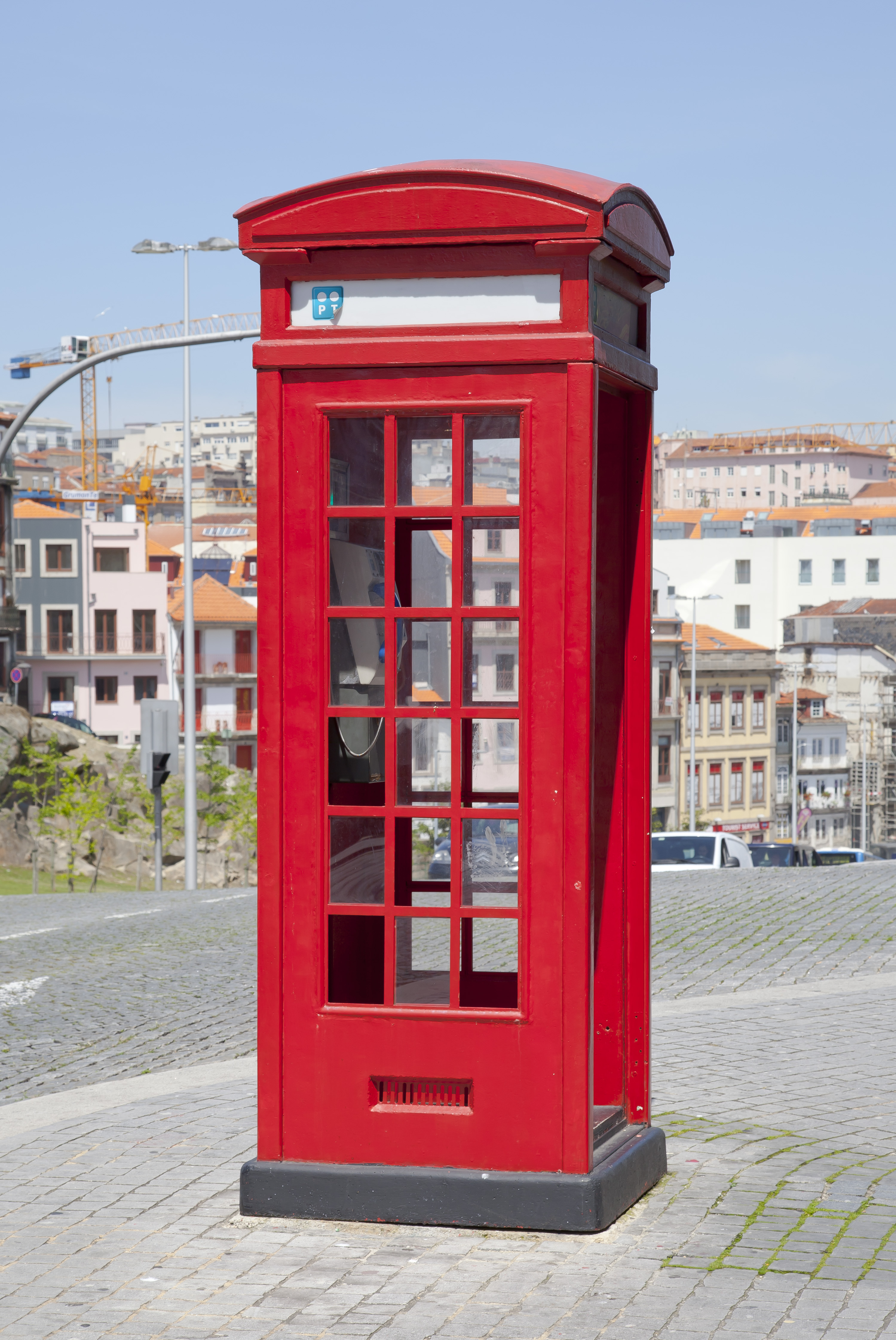 Red telephone booth near to the Porto Cathedral, Portugal